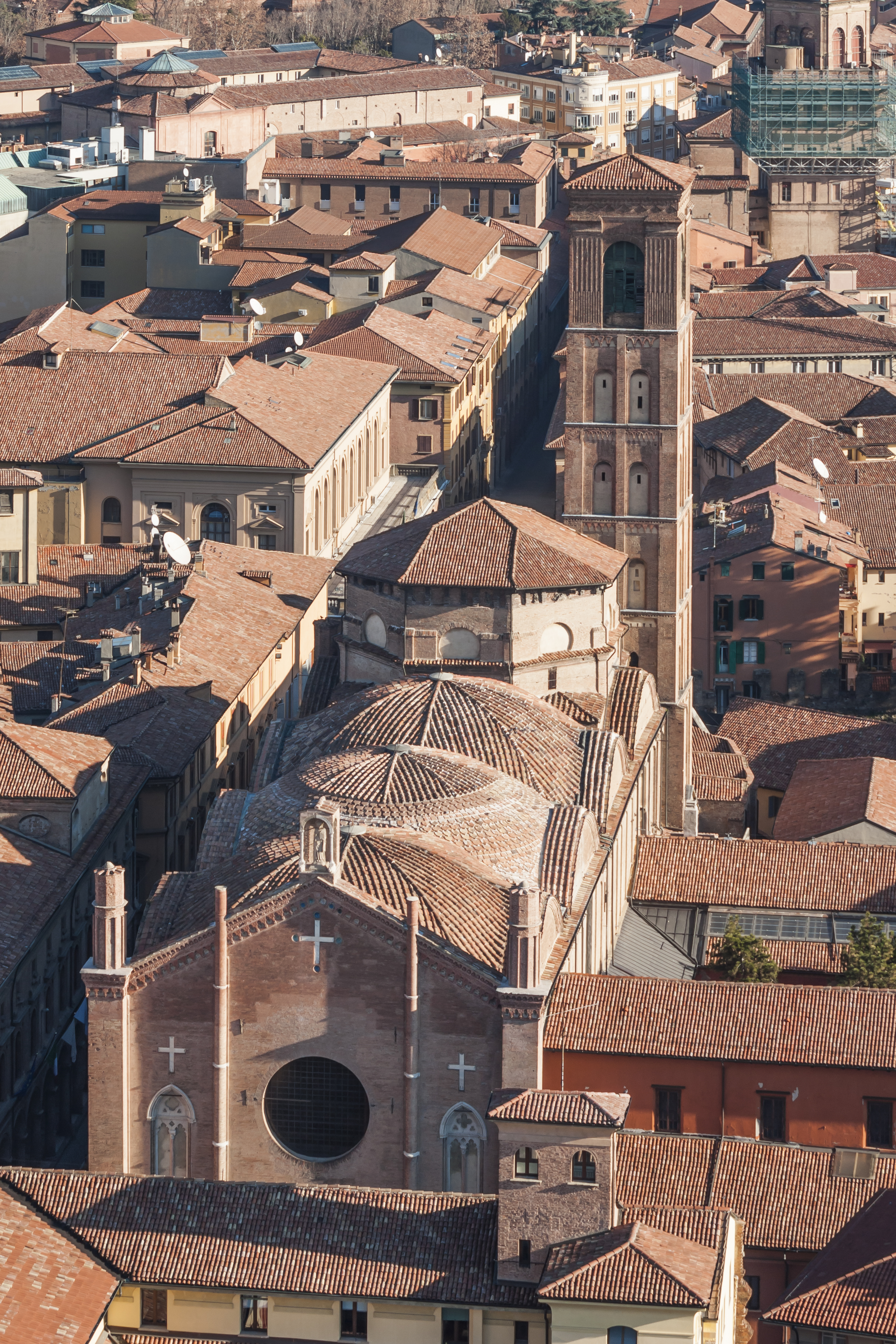 Bologna, Italy: San Giacomo Maggiore